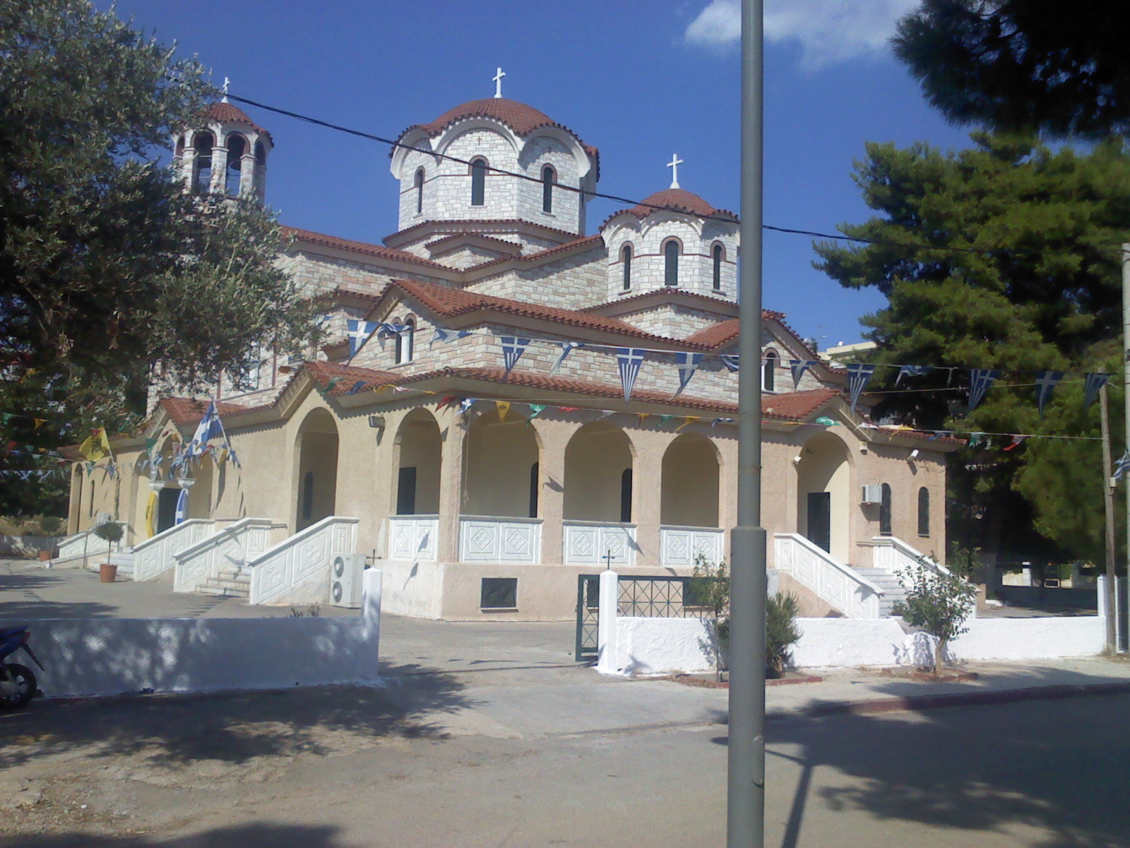 Churche Agios Kosmas Marousi